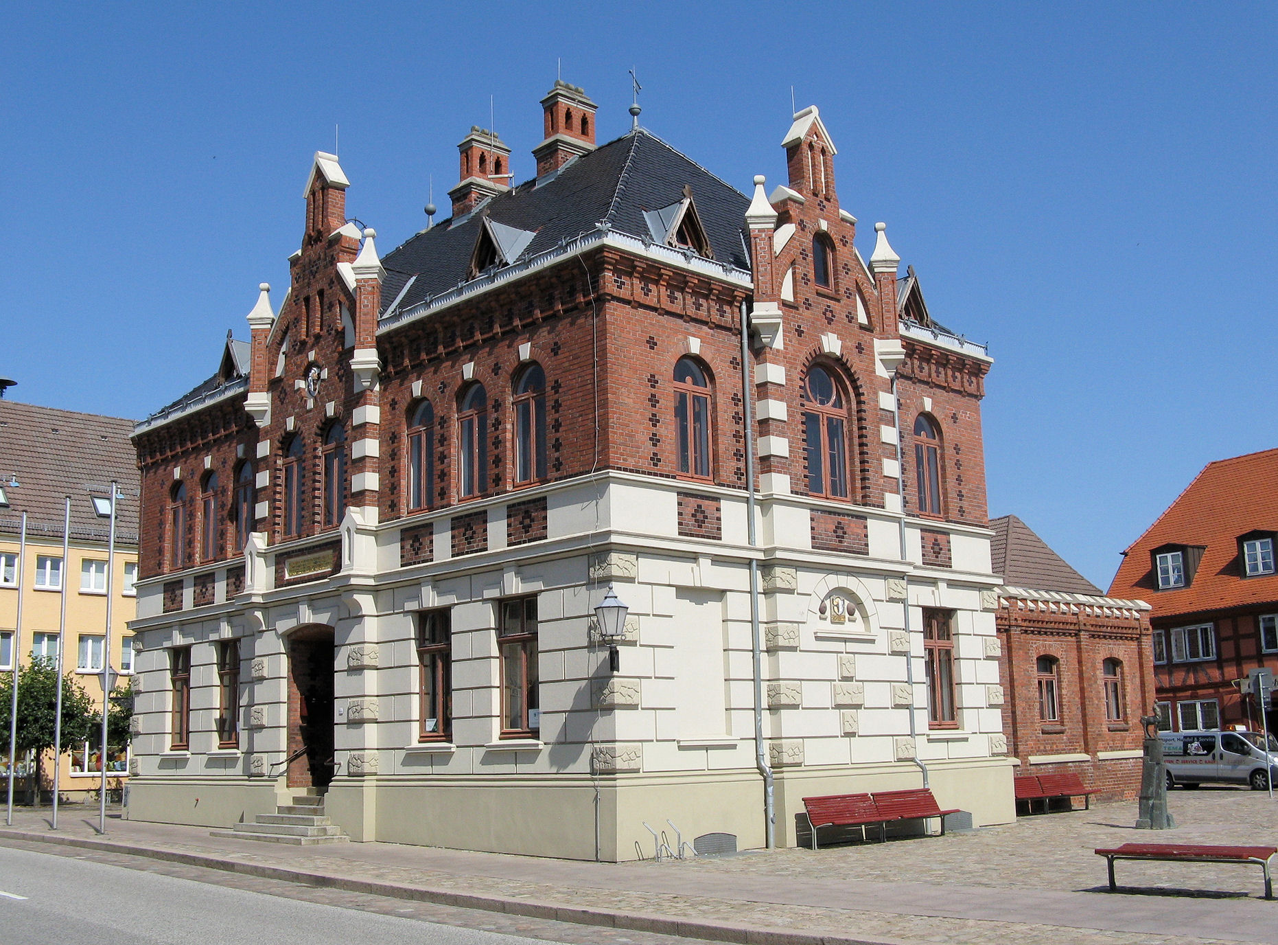 Town hall in Gnoien, disctrict Güstrow, Mecklenburg-Vorpommern, Germany